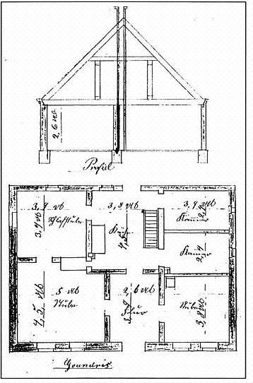 New building 1882, Dorfstr. 54. The village Gömnigk is a part of the town Brück in the district Potsdam Mittelmark, state Brandenburg, Germany, at the border to the natural preserve Naturpark Hoher Fläming.